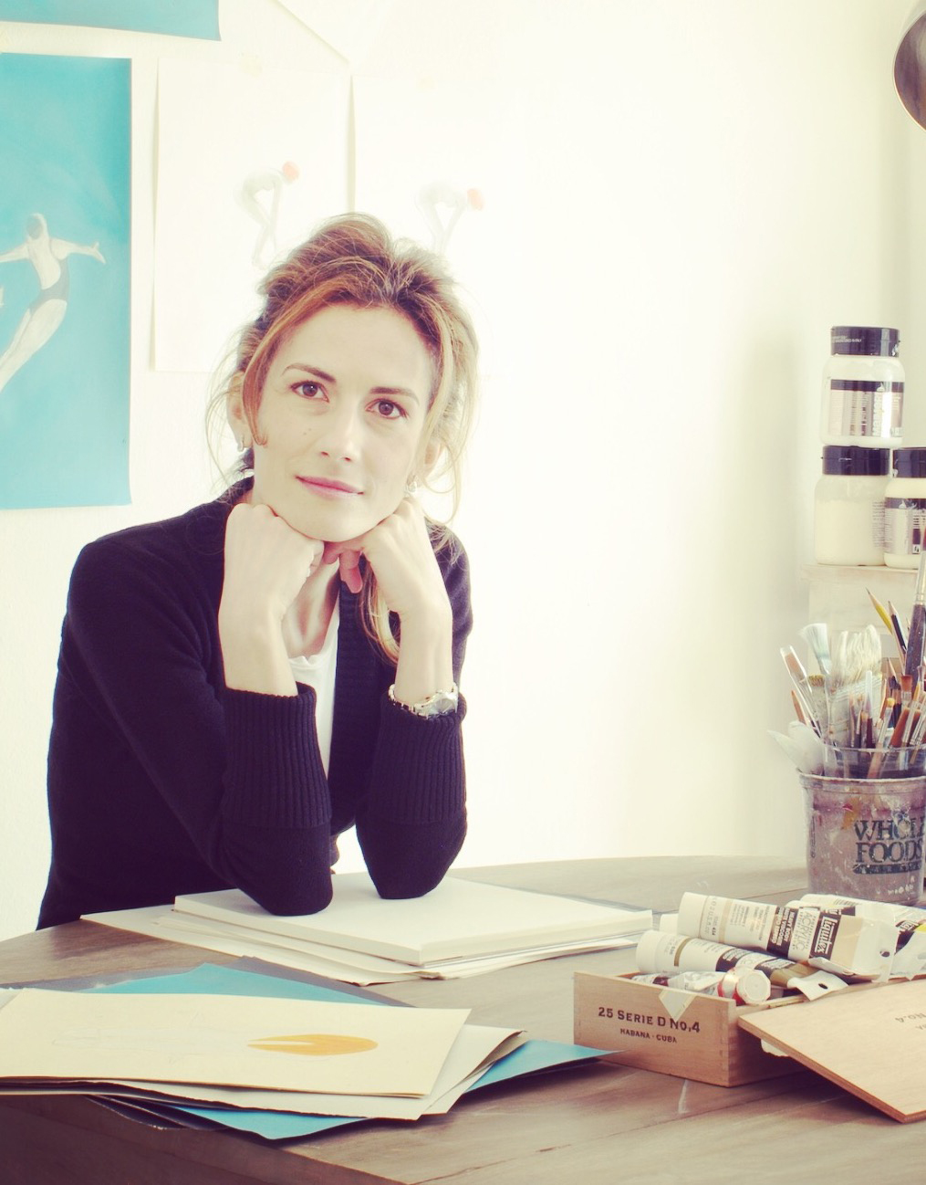 A picture of the artist Roberta Pinna in 27/10/2016